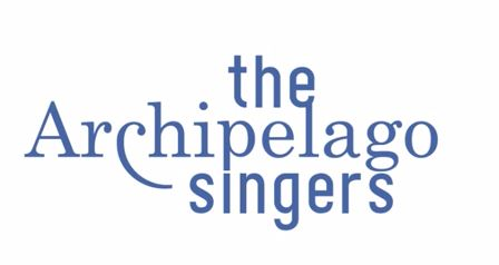 the Archipelago Singers